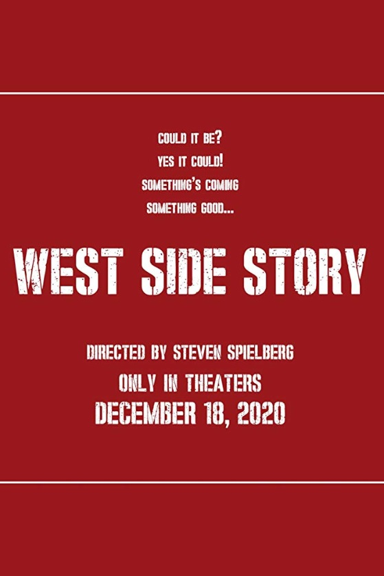 West Side Story poster.